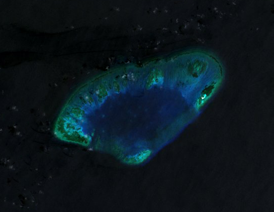 West London Reef is an atoll of Spratly Islands.